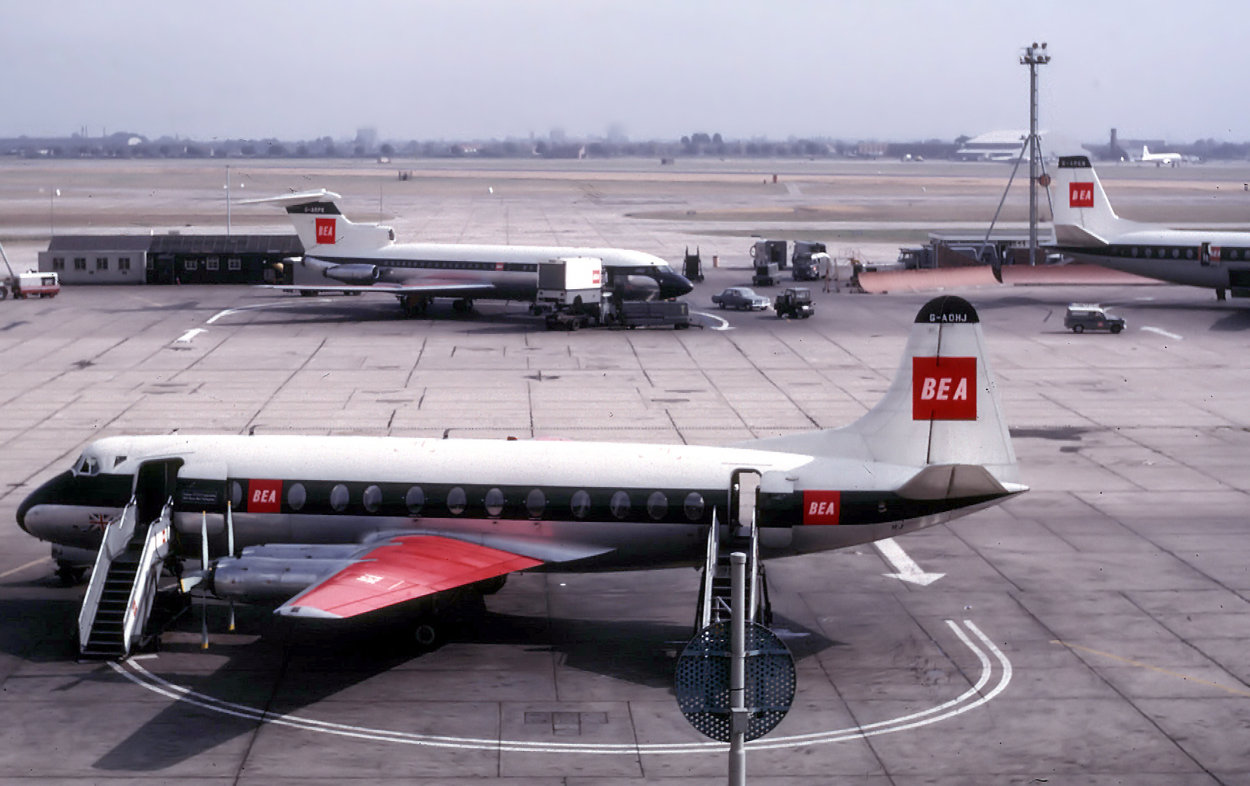 BEA Vickers Viscount Model 802 (G-AOHJ) at London Heathrow Airport, England. Behind it is a BEA Trident and on the right a BEA Vanguard.